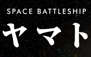 Space Battleship Yamato live action film logo found on the official movie website.